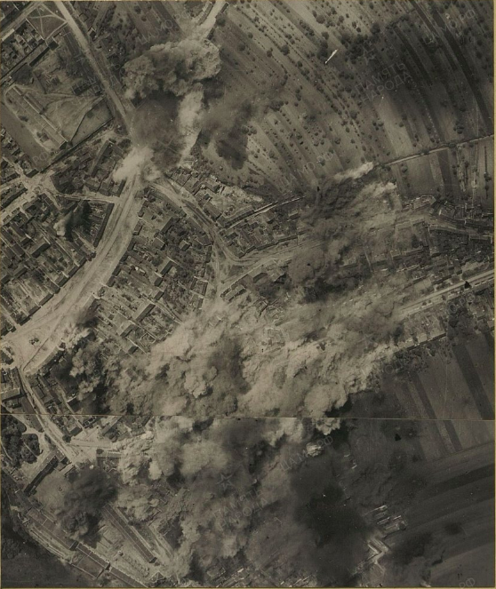 Photograph of damage inflicted on Drnholec by a Soviet bombing raid conducted by A-20G bombers of the 453rd Bomber Aviation Regiment